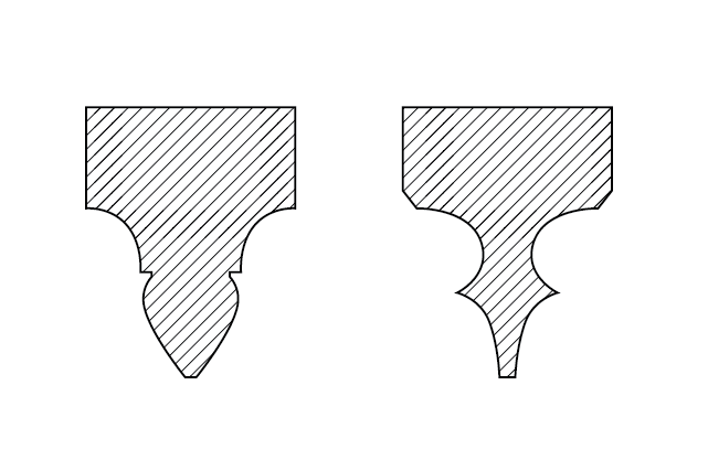 Rib profiles (Late Gothic architecture, Kuressaare castle)